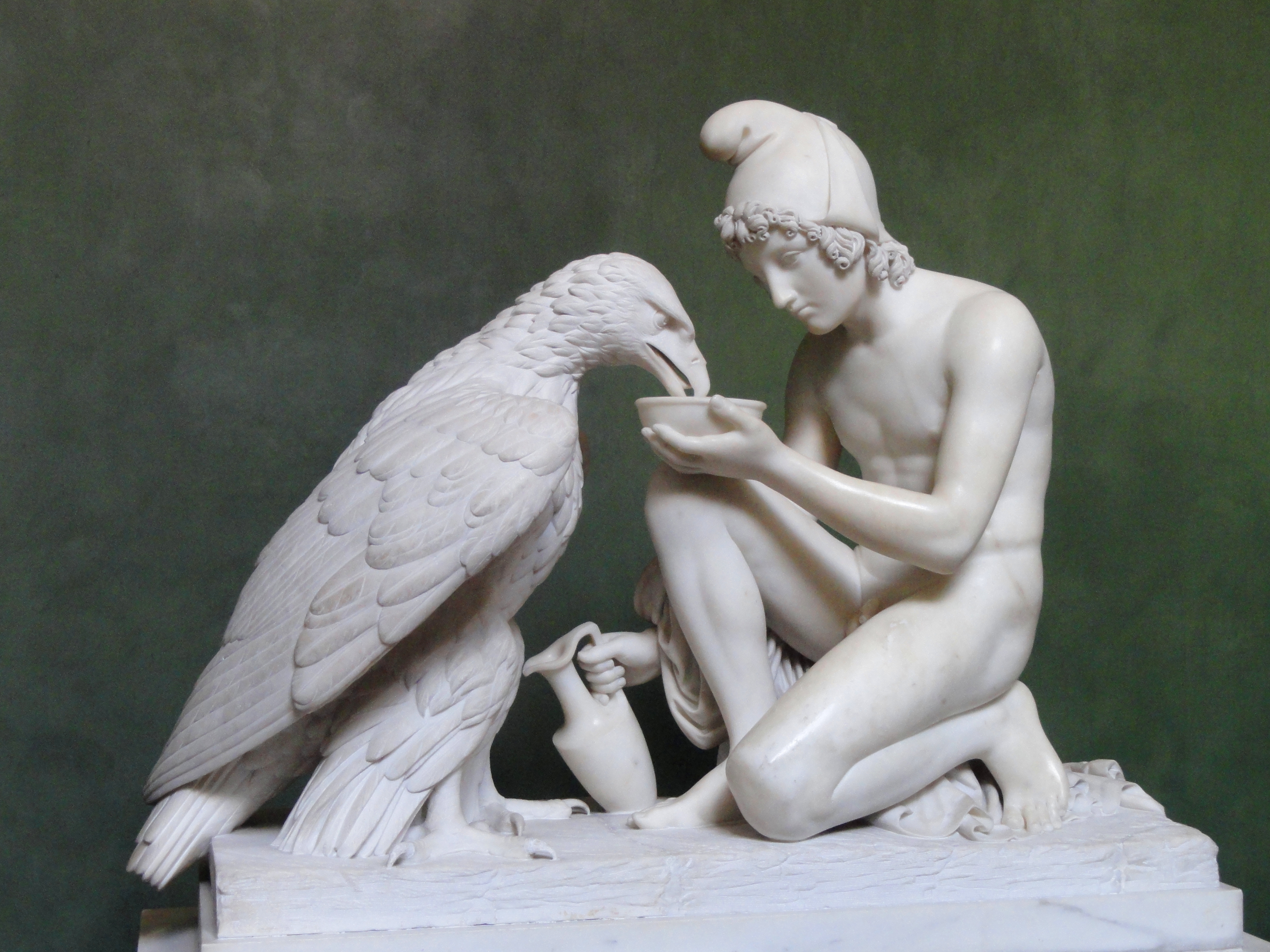 Sculpture in Thorvaldsens Museum, Copenhagen, Denmark. Sculptor: Bertel Thorvaldsen (c. 1770-1844). This artwork is now in the public domain because the artist died more than 70 years ago.